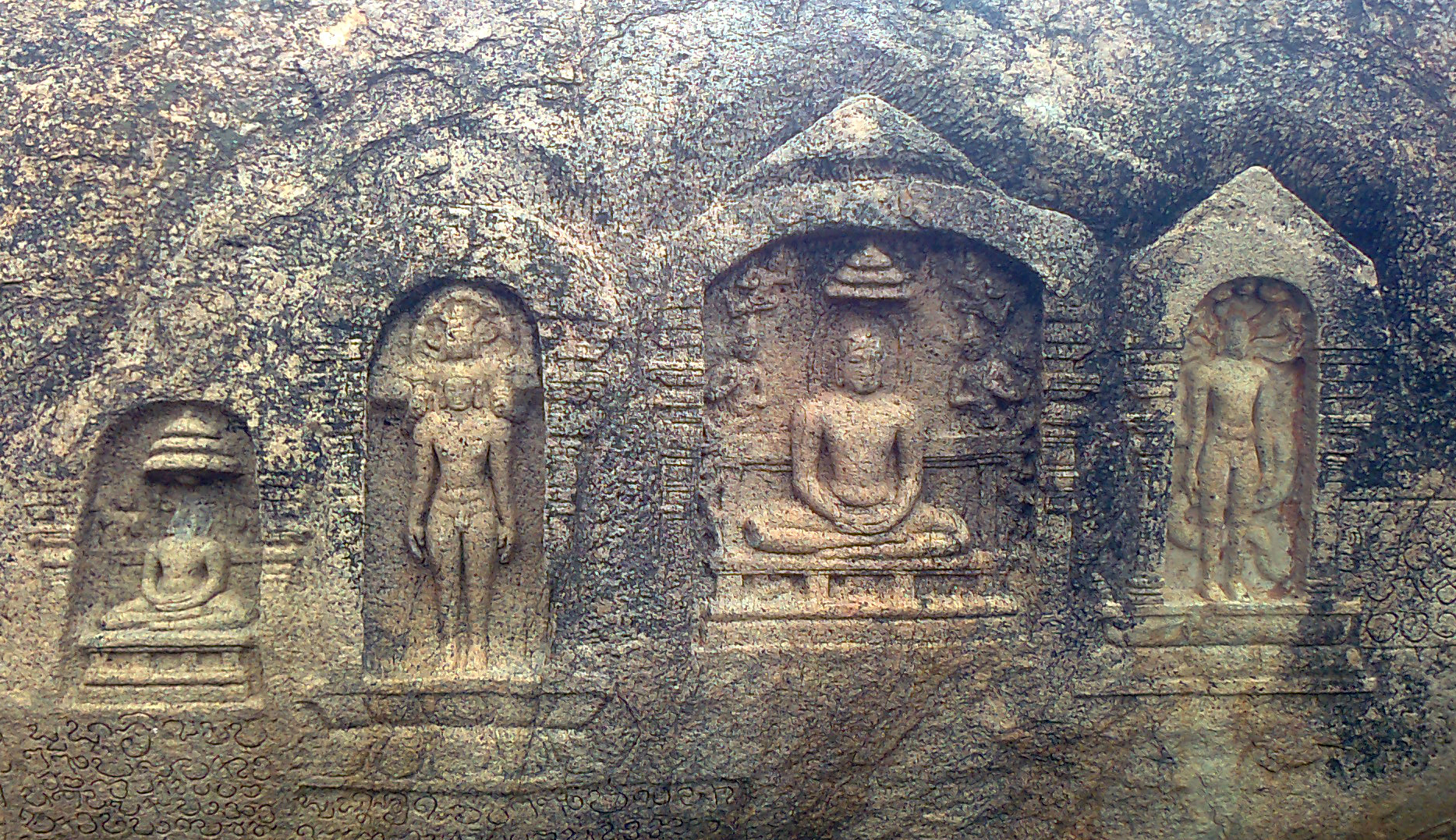 Samanar Hill, Keelakuyilkudi from Madurai, where the Eighth Century Jain sculptures and caves are still existing, which is opposite to Nagamalai, is of historical importance. Samanars (Tamil Jain) were said to have stayed on the hill, fearing persecution from the then rulers of Madurai. Many stone statues and other artifacts are present in Nagamalai.